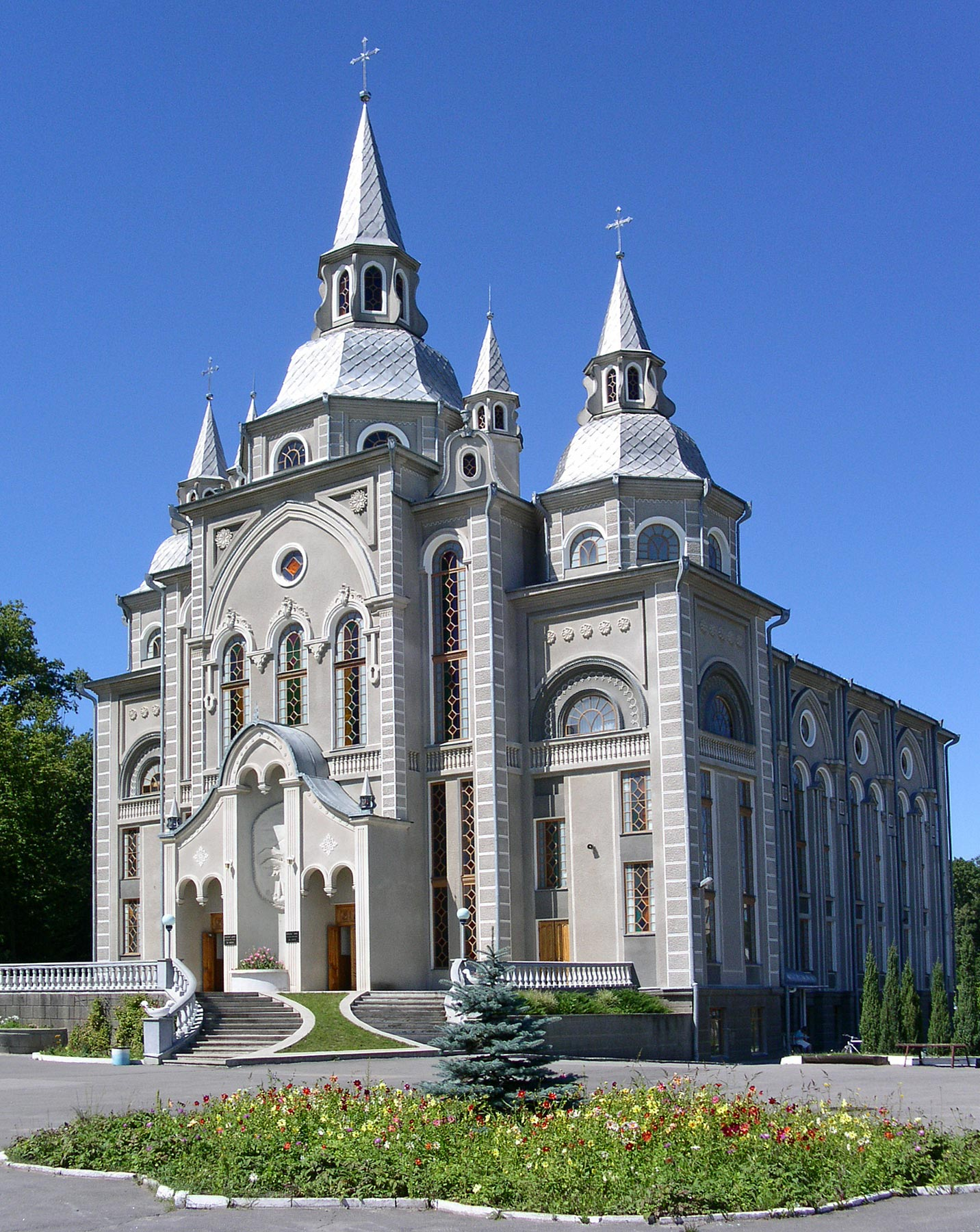 The main Baptist church in Vinnytsia, Ukraine